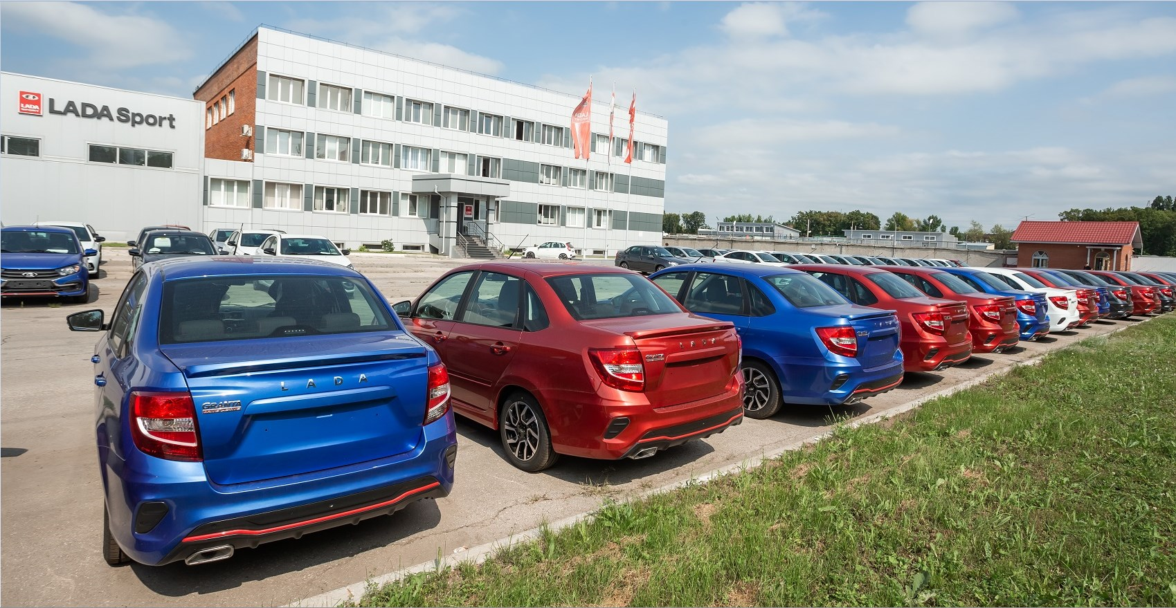 LADA Sport, LADA Granta Drive Active